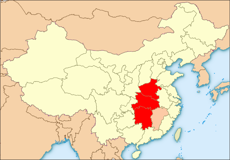 Map of China, originally in the equirectangular projection (equidistant cylindrical projection, or plate carrée), but stretched vetically 1,2 times (for better appearance). Made for Template:Location map. Cropped by 1 degree lines (73° - 135° E, 18° - 54° N).